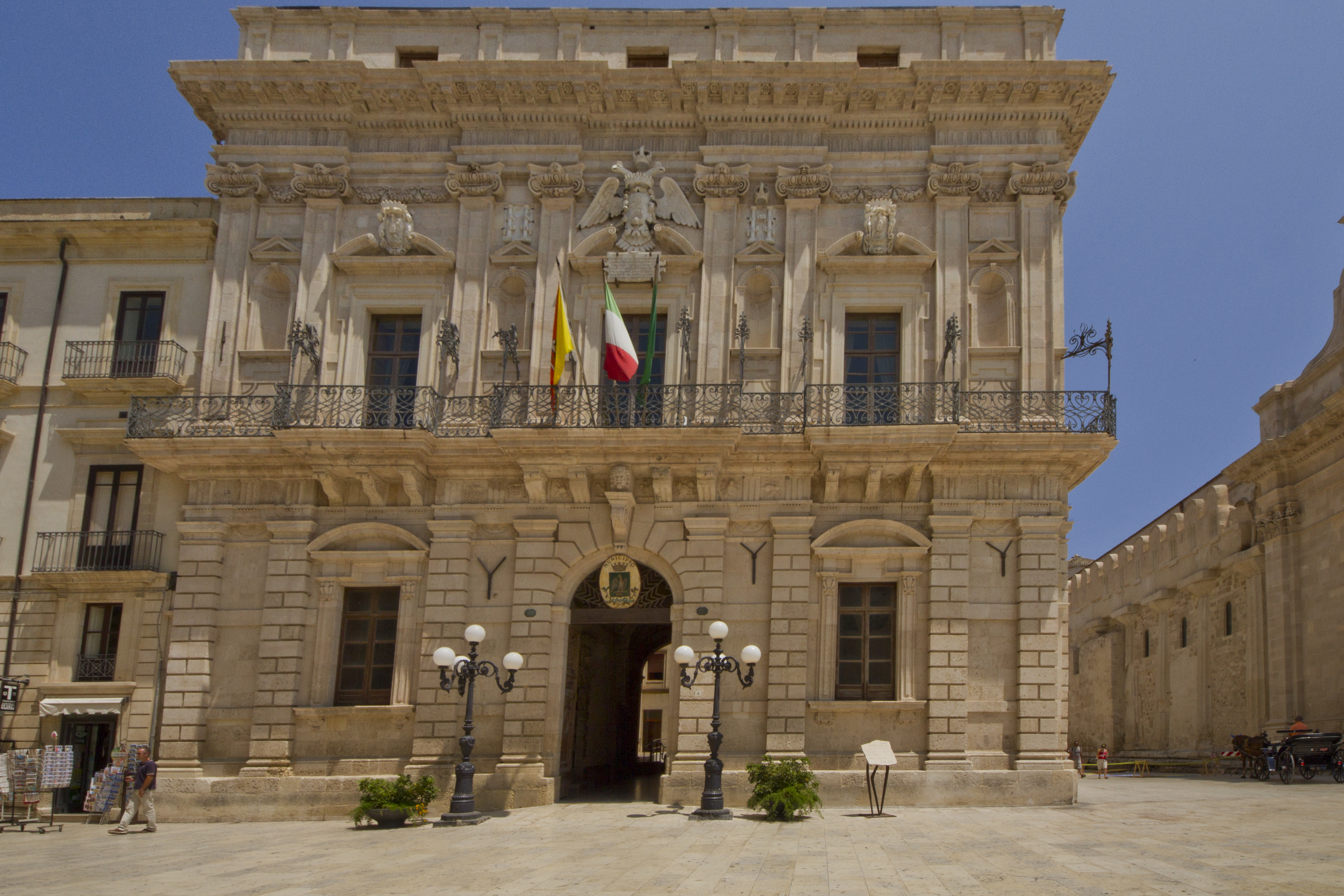 Palazzo del Senato, Ortygia, Syracuse, Province of Syracuse, Sicily, Italy